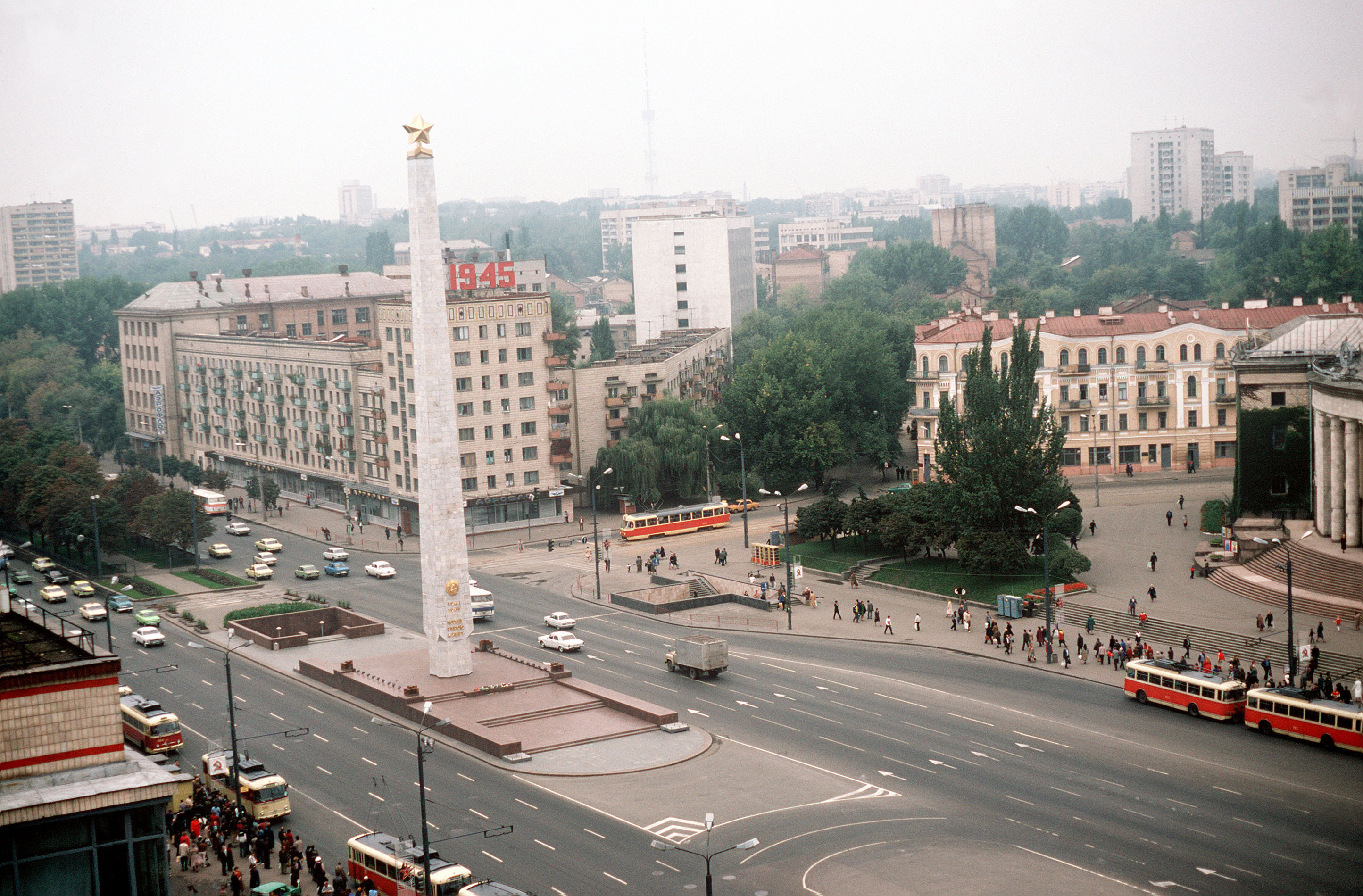 Elevated view of the memorial obelisk on Peremohy Square in Kiev erected in honor of the city of Kiev's contributions to the war effort during World War II in 1985.